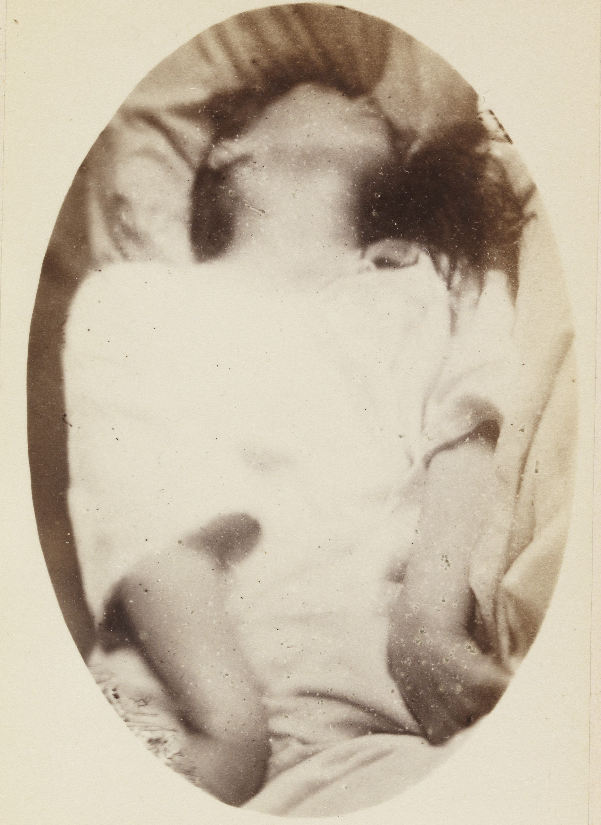 Attaque: Periode Epileptoide. Planche XVII. Iconographie photographique de la Salpetriere : service de M. Charcot / par Bourneville et P. Regnard. Volume 1. The text is by Bourneville and the photographs are by P. Regnard. The plates in are mounted photographs (albumen prints) with letterpress captions. Rare Books Keywords: Hypnosis; Photography; Epilepsy; Paul Regnard; Hysteria